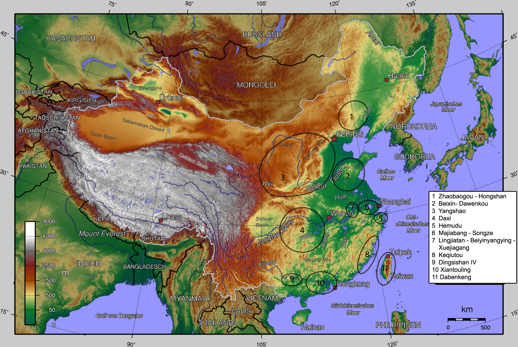 Map of the middle Neolithic cultures in China. Map built with the help of Li Liu and Xingcan Chen : The Archaeology of China : From the Late Paleolithic to the Early Bronze Age, Cambridge University Press 2012, page 170. Compared to : Li Feng Early China, 2013. Page 19 : The "Chinese Interaction Spheres" map.